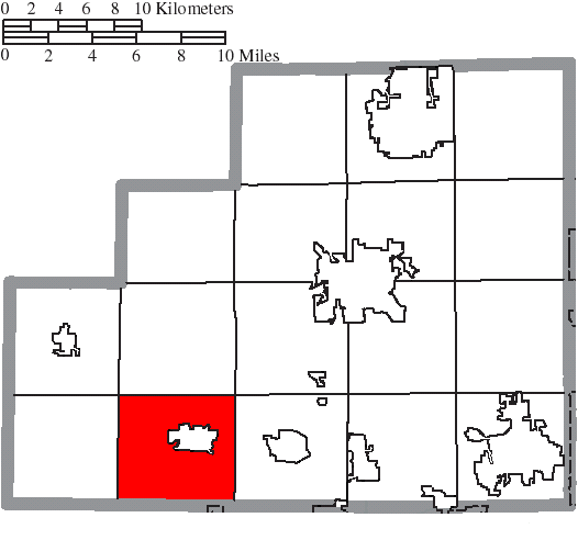 Map of the municipal and township boundaries of Medina County, Ohio, United States, as of the 2000 census, with the location of Harrisville Township highlighted. Township borders are shown only in unincorporated areas in order to differentiate incorporated and unincorporated areas more clearly.